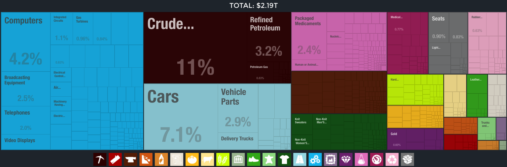 Imports to the United States